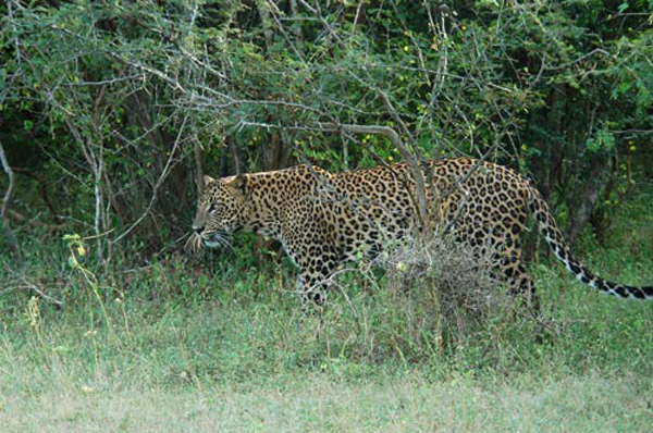 Sri Lanka Leopard (Panthera pardus kotiya) in wild